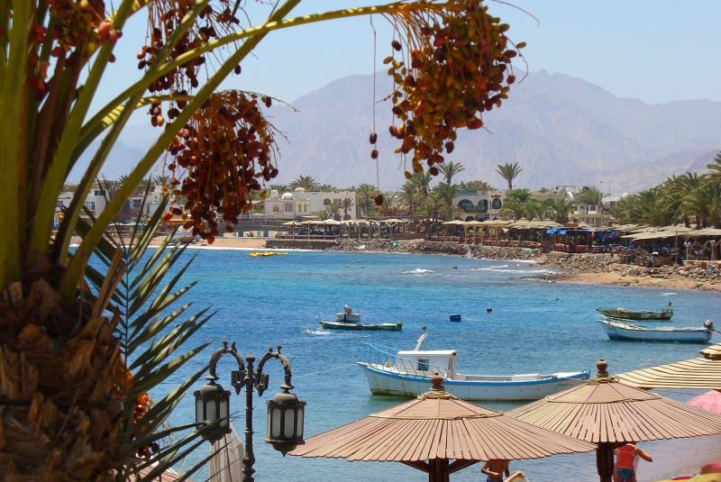 Dahab, South Sinai, Egypt, view of shore from dive shop